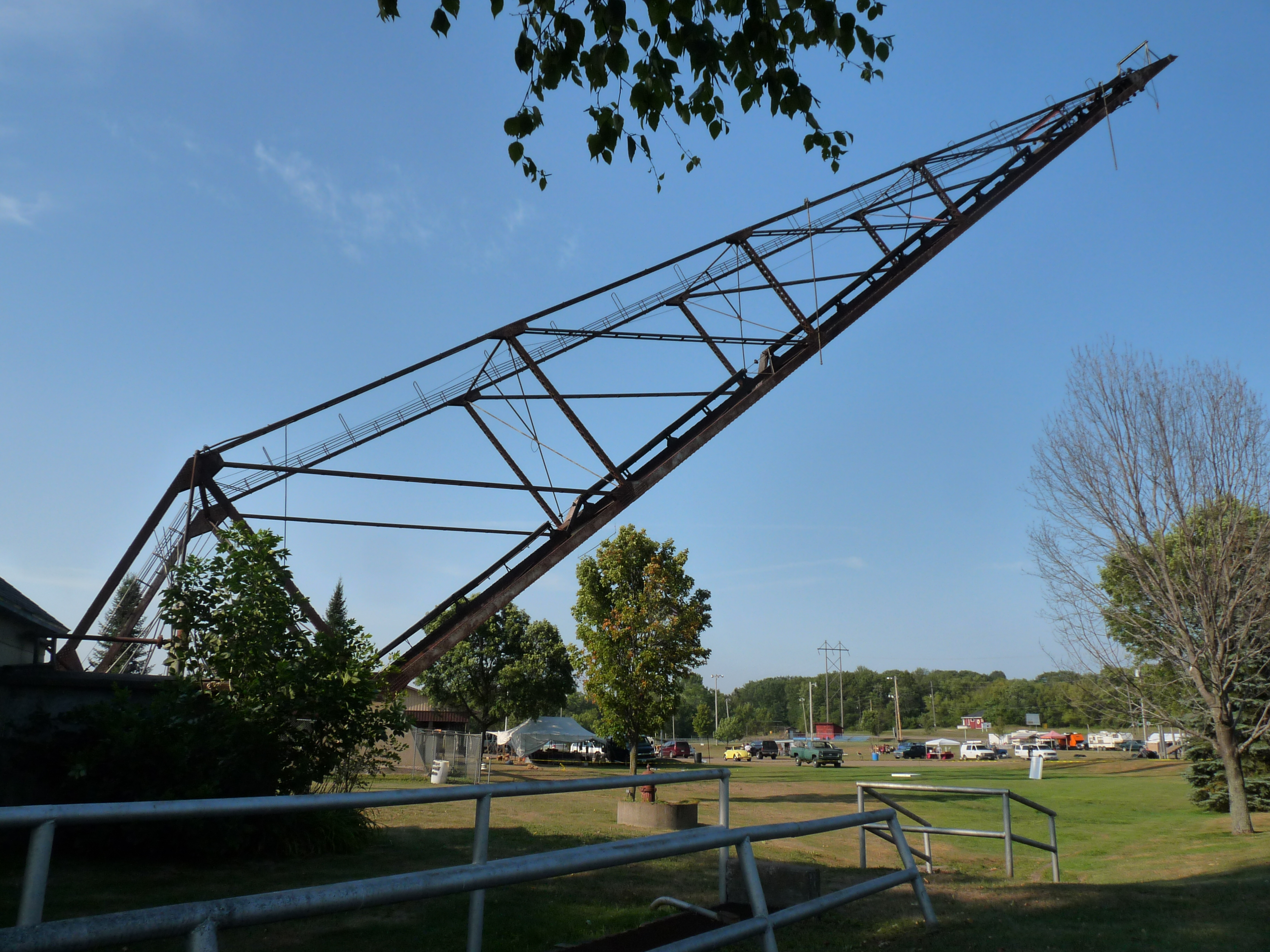 The Pulpwood Stacker in Cornell, Wisconsin, is a 175-foot conveyor used from 1913 to 1972 to stack raw wood waiting to be processed into paper. It was listed on the National Register of Historic Places in 1993.